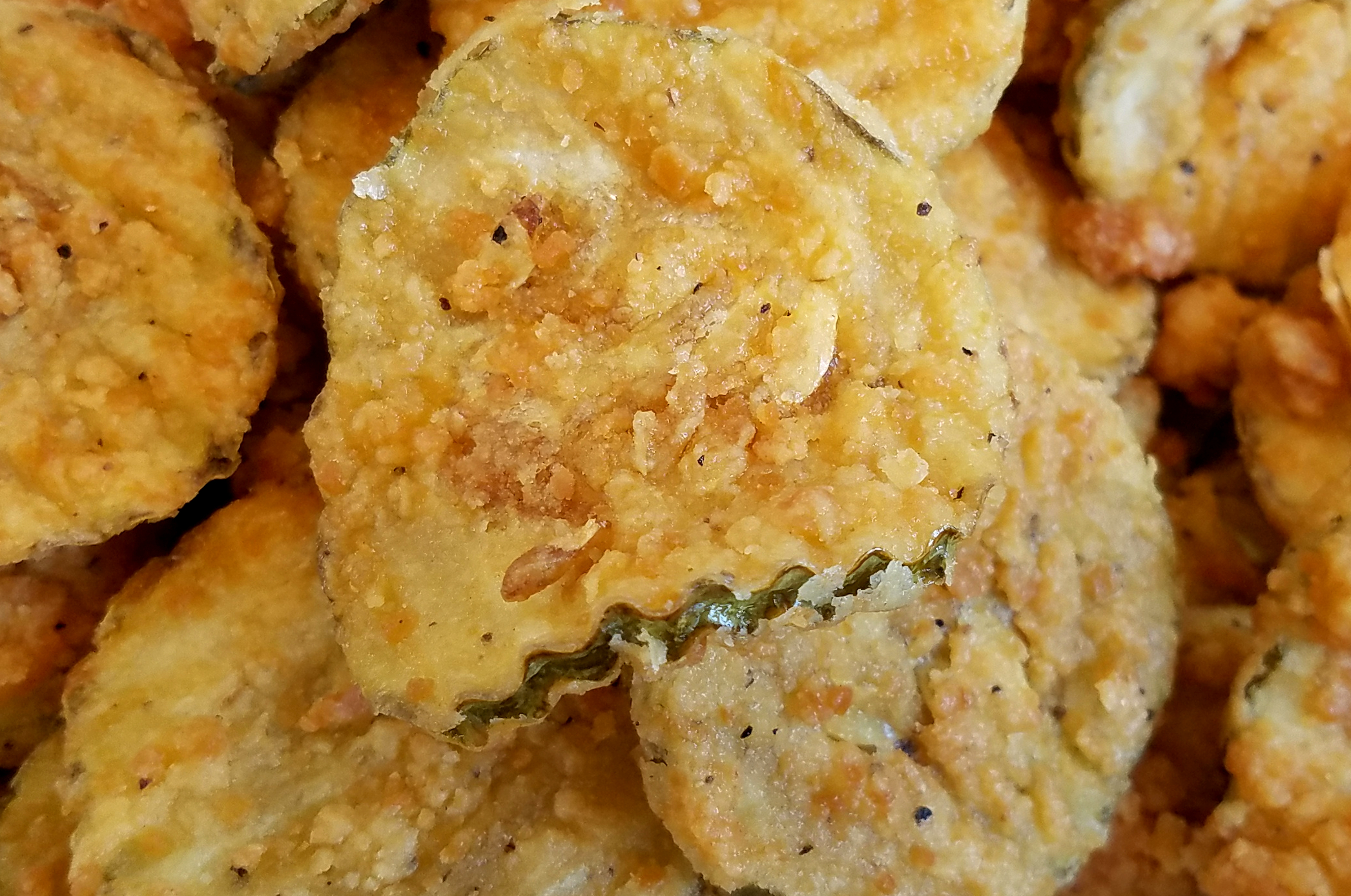 A side of fried pickles from Slim Chickens in Wichita, Kansas. Digitally altered to illustrate fried pickles.